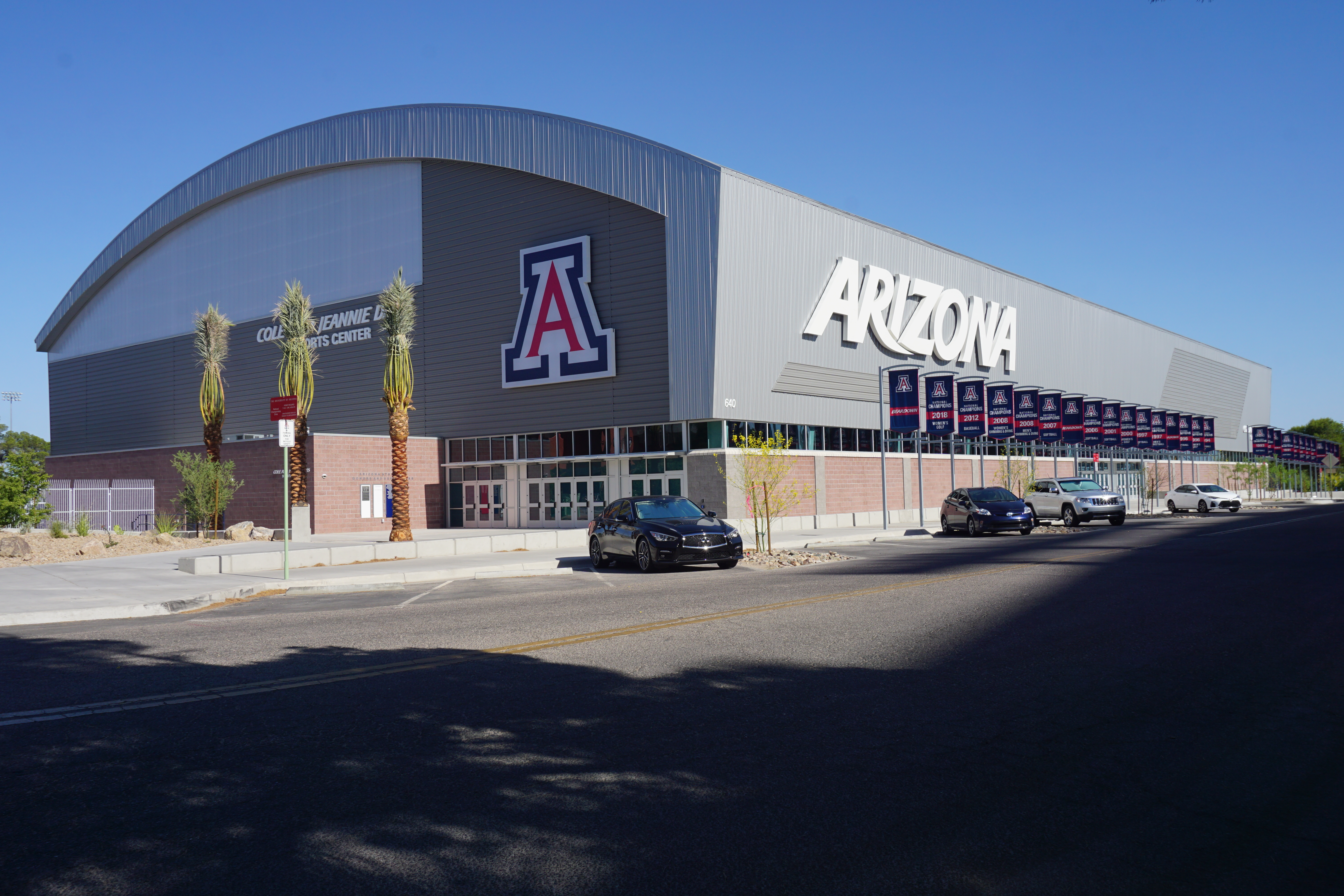 The Cole and Jeannie Davis Sports Center on the campus of the University of Arizona in Tucson, Arizona (United States).